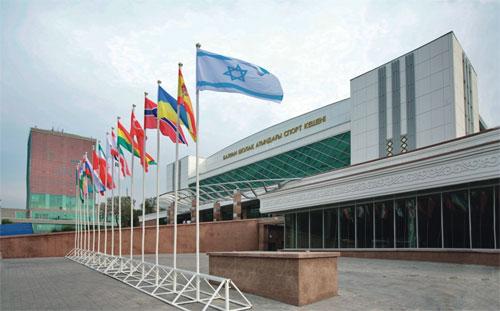 Baluan Sholak sport centre, Almaty (KAZ)